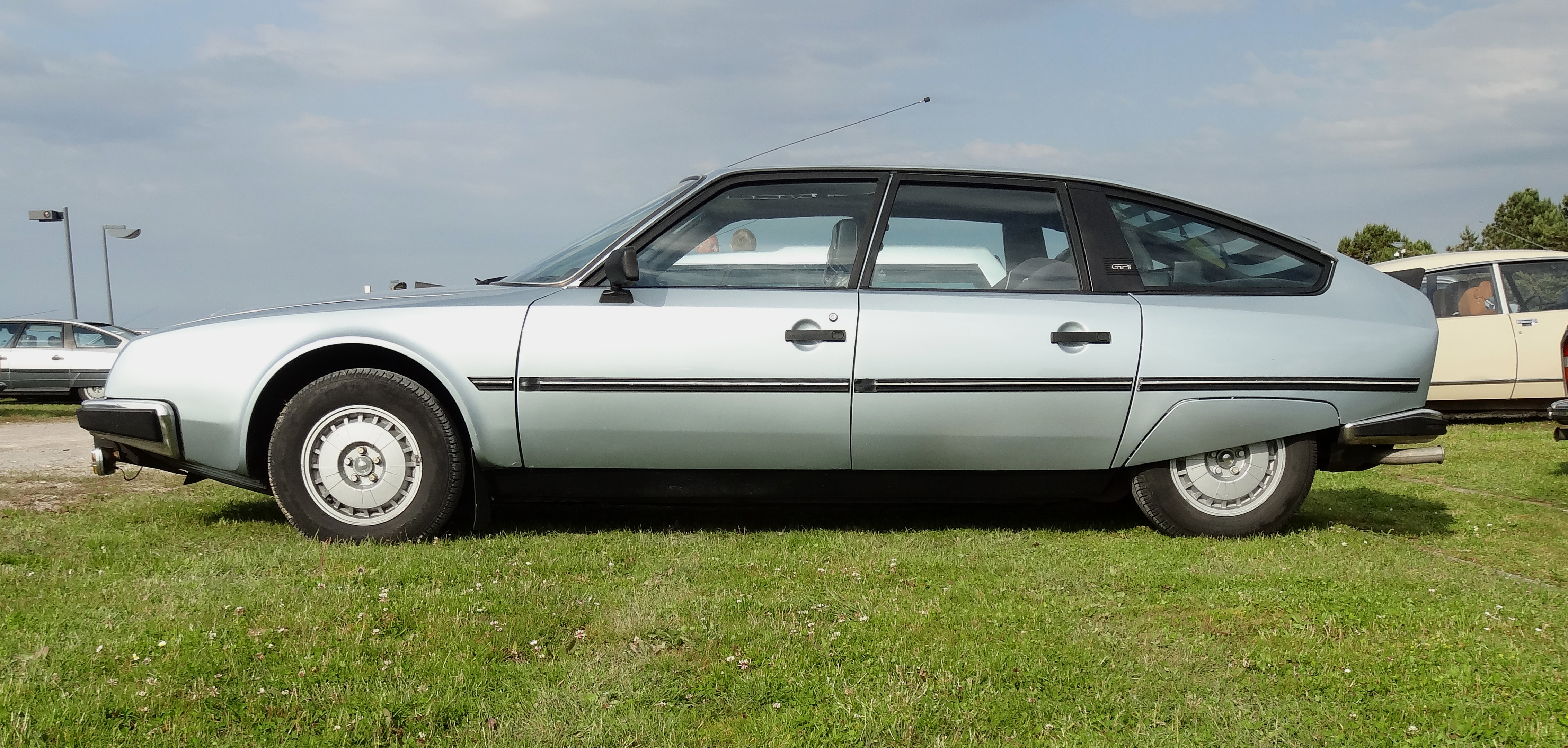 Citroën CX